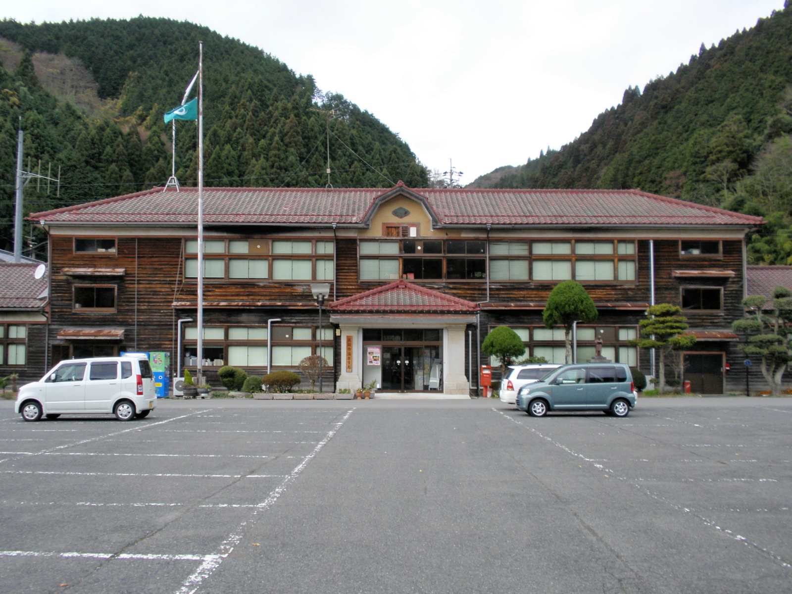 Maniwa city office Yubara branch Former Yumoto elementary school ( - 1968) Former Yubara town office (1970.11 - 2005.3.30)